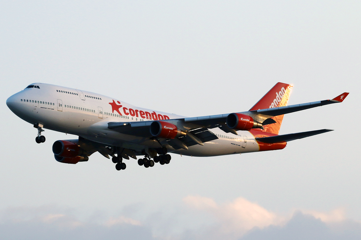 EHAM the first and also the LAST EVER landing of this a/c in this livery Coming in from FCO Rome. Will become an hotel in the earlies of 2019 Picture made at "de Ringvaart" while the aircraft should land at rwy 36R In 2014 seen this aircraft in her previous livery of the KLM at KLAX turning onto the runway